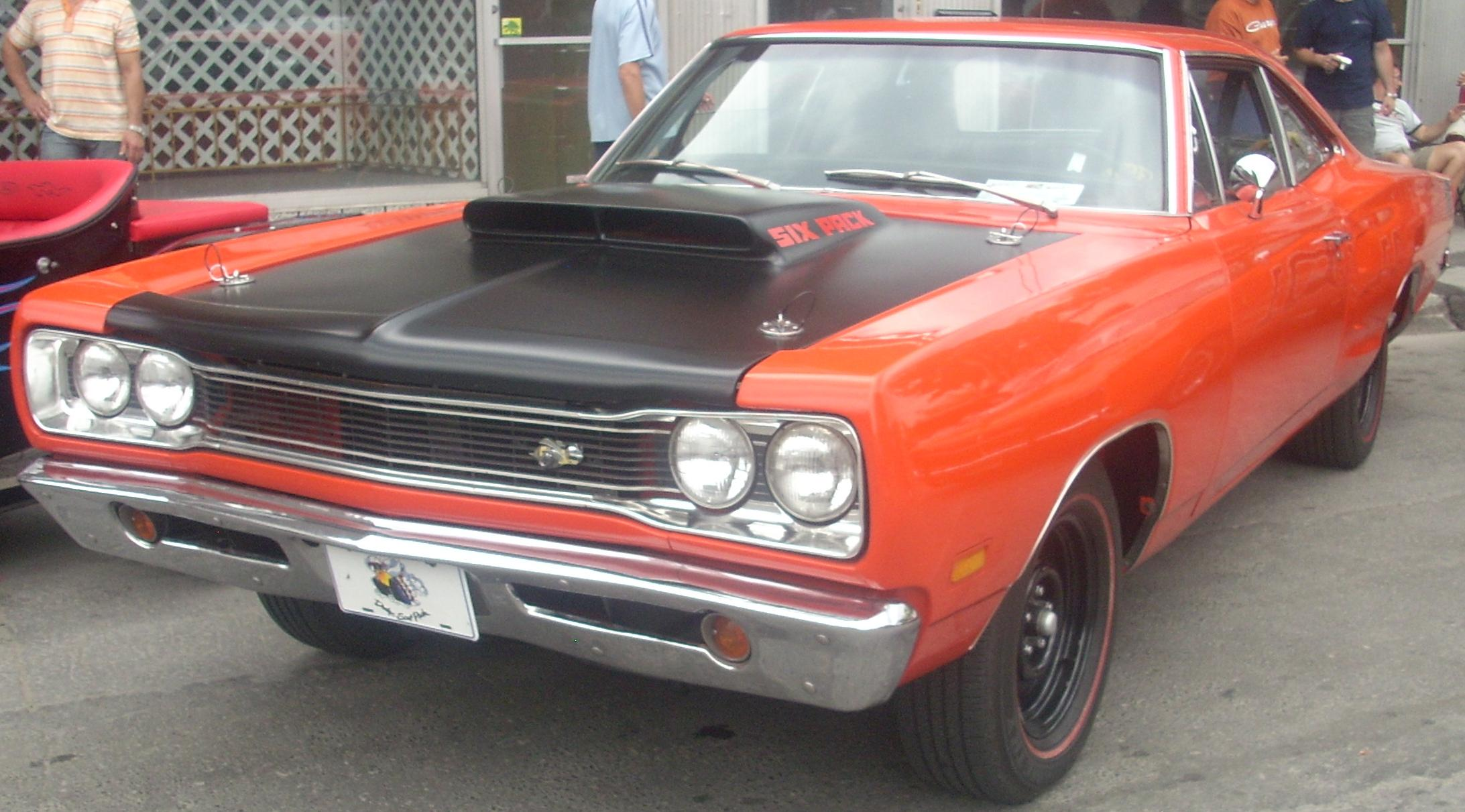 1969 Dodge Super Bee photographed in Ste. Anne De Bellevue, Quebec, Canada at Cruisin' At The Boardwalk 2010.